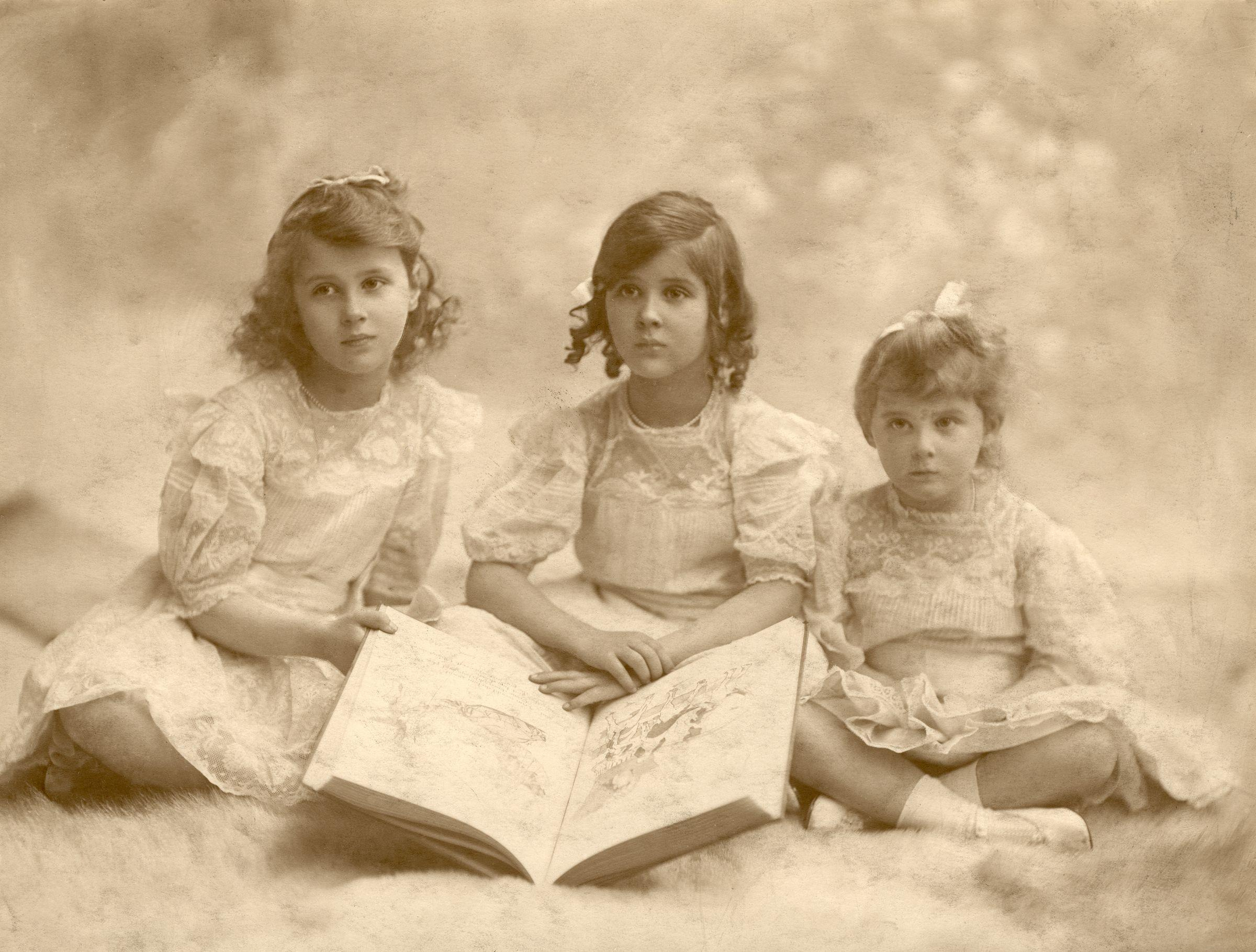 Princess Olga of Greece and Denmark (later Princess Paul of Yugoslavia); Princess Elizabeth of Greece and Denmark (later Elizabeth, Countess Toerring-Jettenbach); Princess Marina of Greece and Denmark (later Princess Marina, Duchess of Kent), by Lallie Charles (née Charlotte Elizabeth Martin) (died 1919), given to the National Portrait Gallery, London in 1994. All images in this batch have been confirmed as author died before 1939 according to the official death date listed by the NPG.